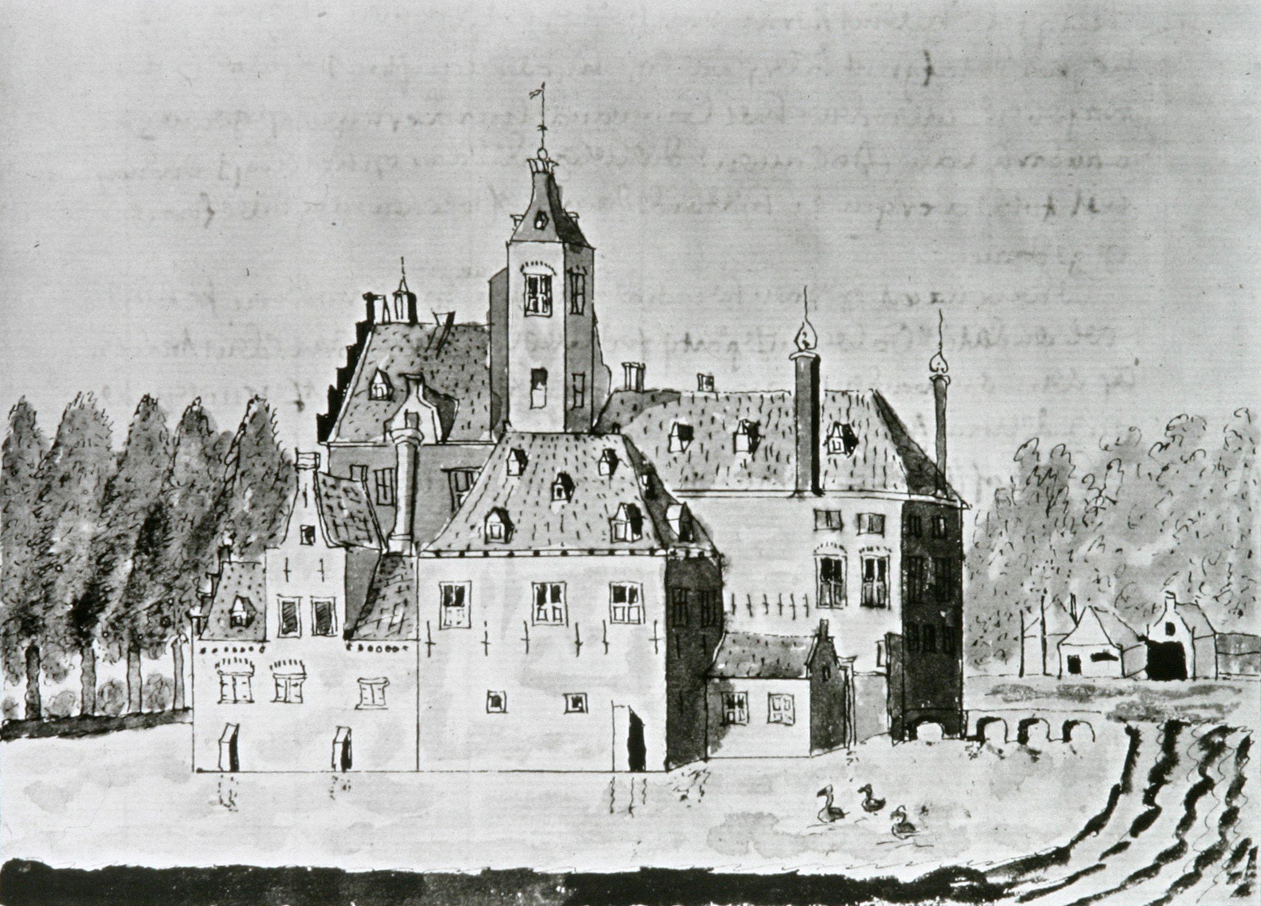 Polanen Castle in the village of Monster, the Netherlands, drawing from 1620